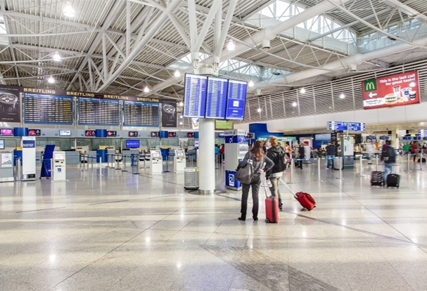 Check in area, Athens International Airport, Greece